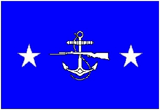 Rank flag of Commander of the Marine Corps